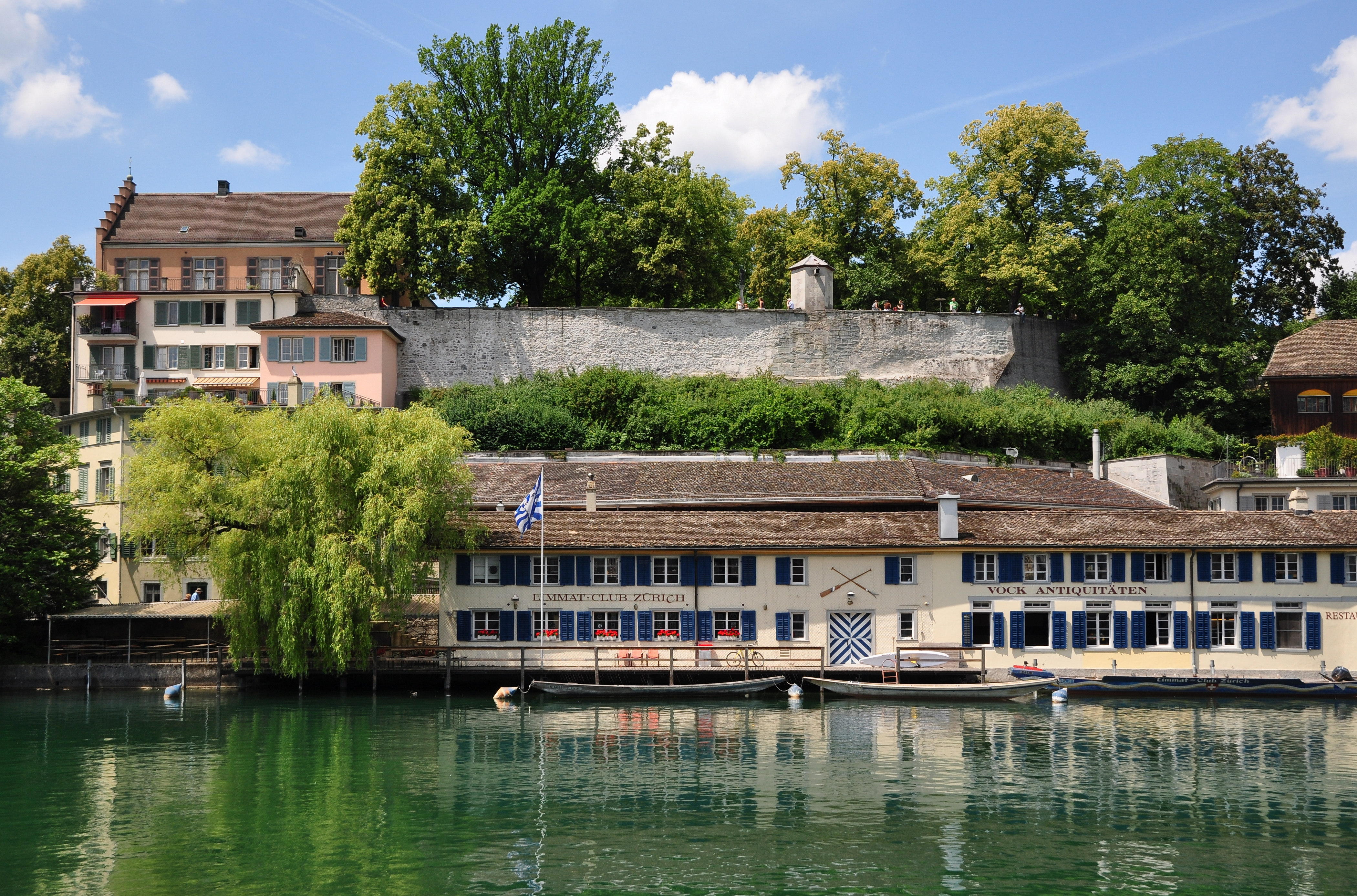 Zürich : Schipfe respectively Lindenhof with remains of the Roman and 11th century castle (Pfalz/Palatinate) as seen from Limmatquai.